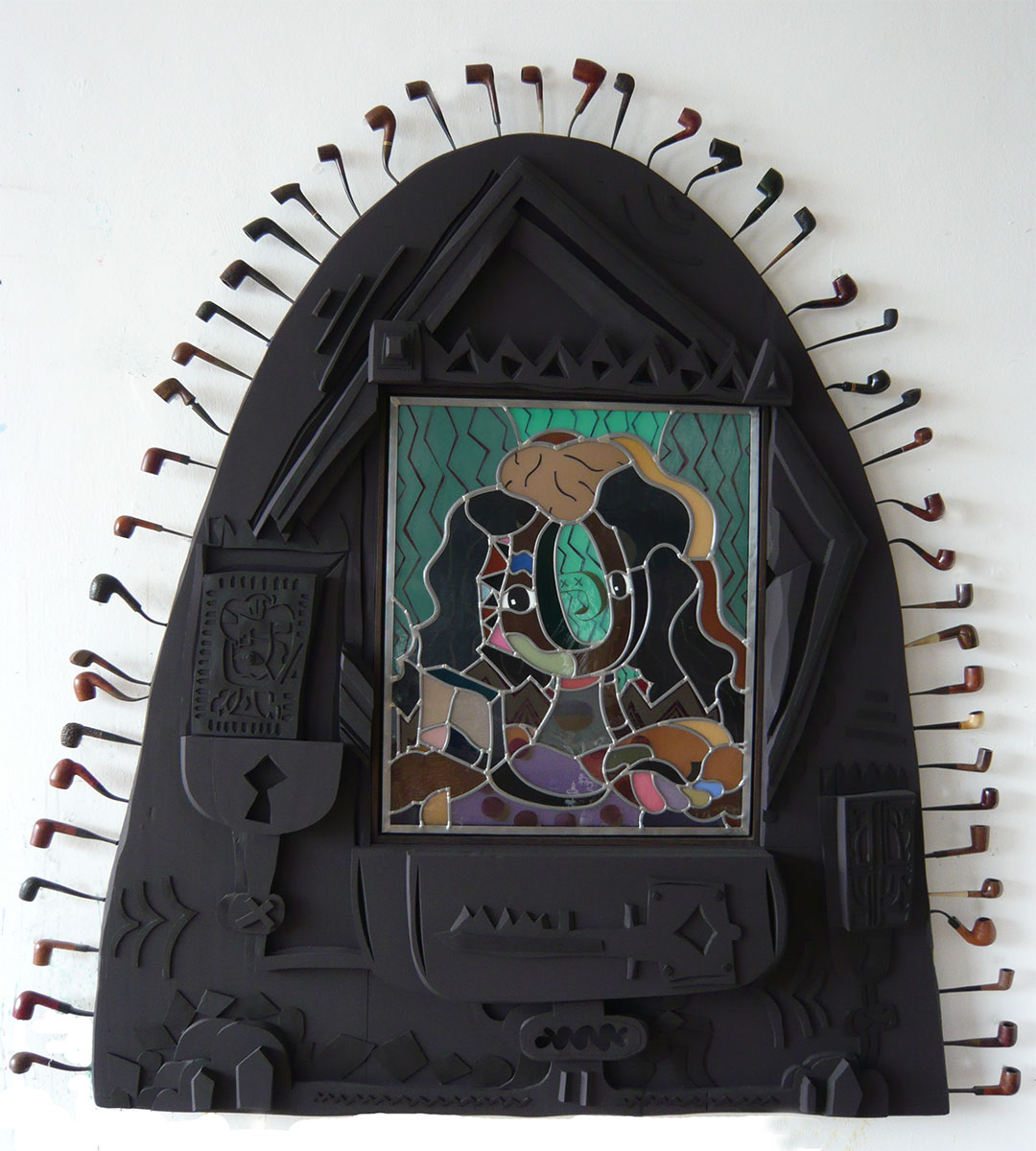 I made this picture by myself today in the press conference, it is showing the artwork of the artist Alexander Esters in the Museum Baden in Solingen